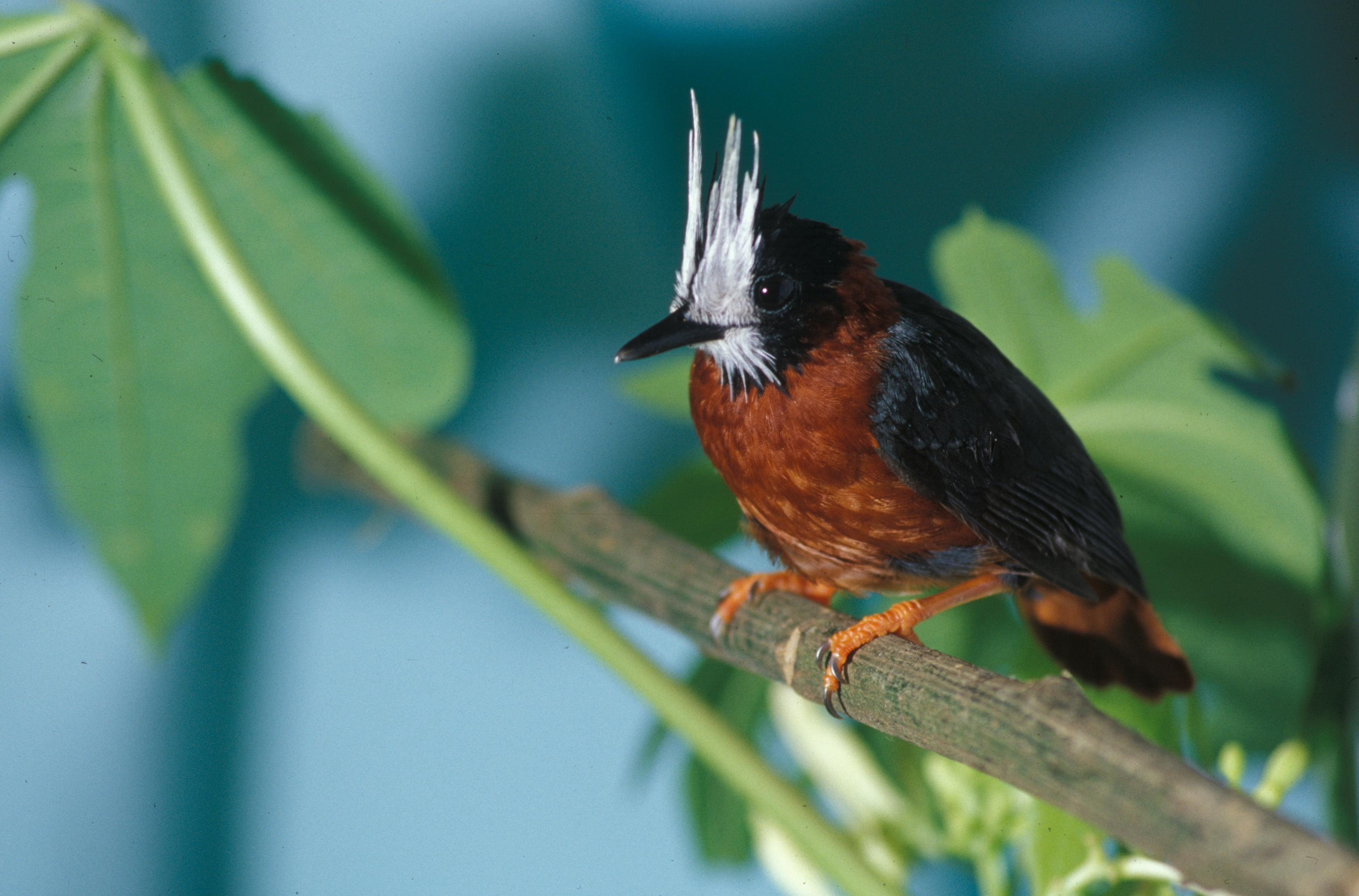 White-plumed Antbird (Pithys albifrons) from the NBII Image Gallery. Photographed at Cordillera del Cóndor, Ecuador.